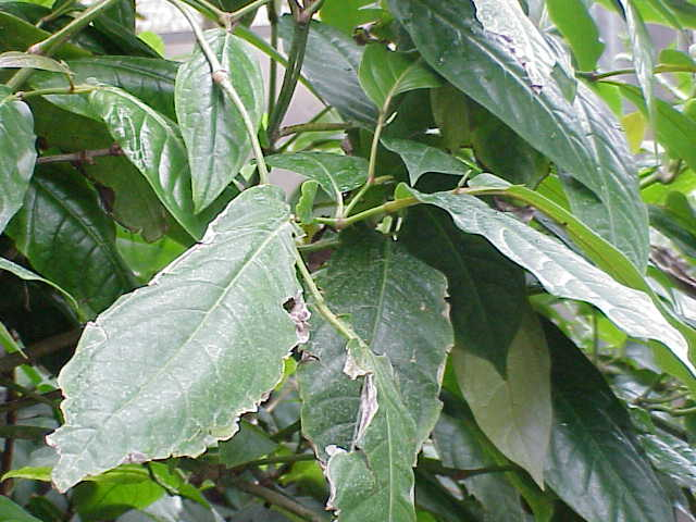 Species: Piper grandifolium Family: Piperaceae Image No. 1